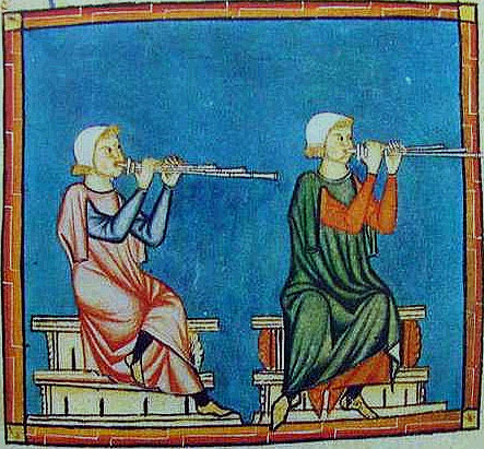 Medieval painting of a triple reedpipe from the Cantigas de Santa Maria (Pseudo-Launeddas)